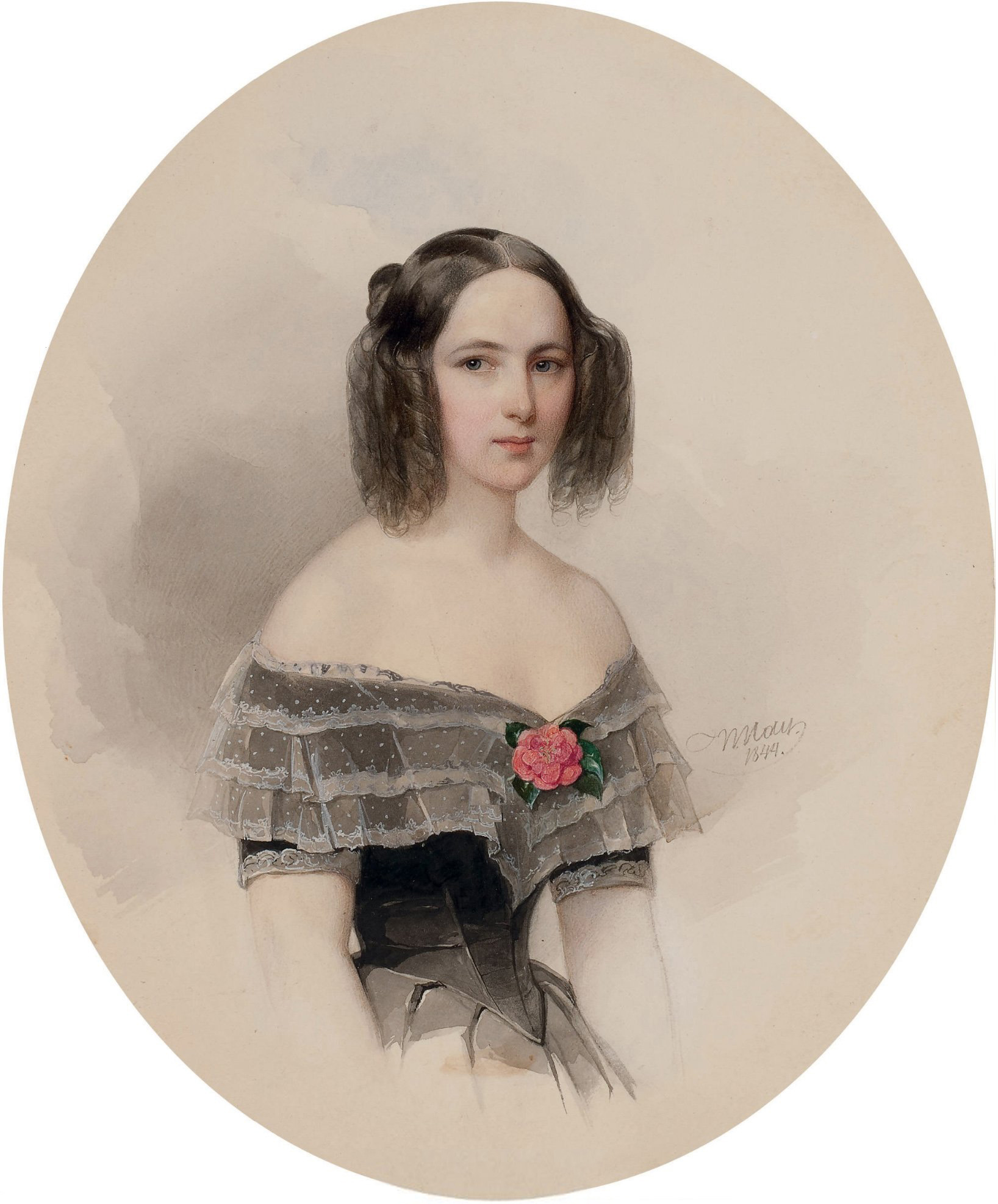 Natalia Pushkina